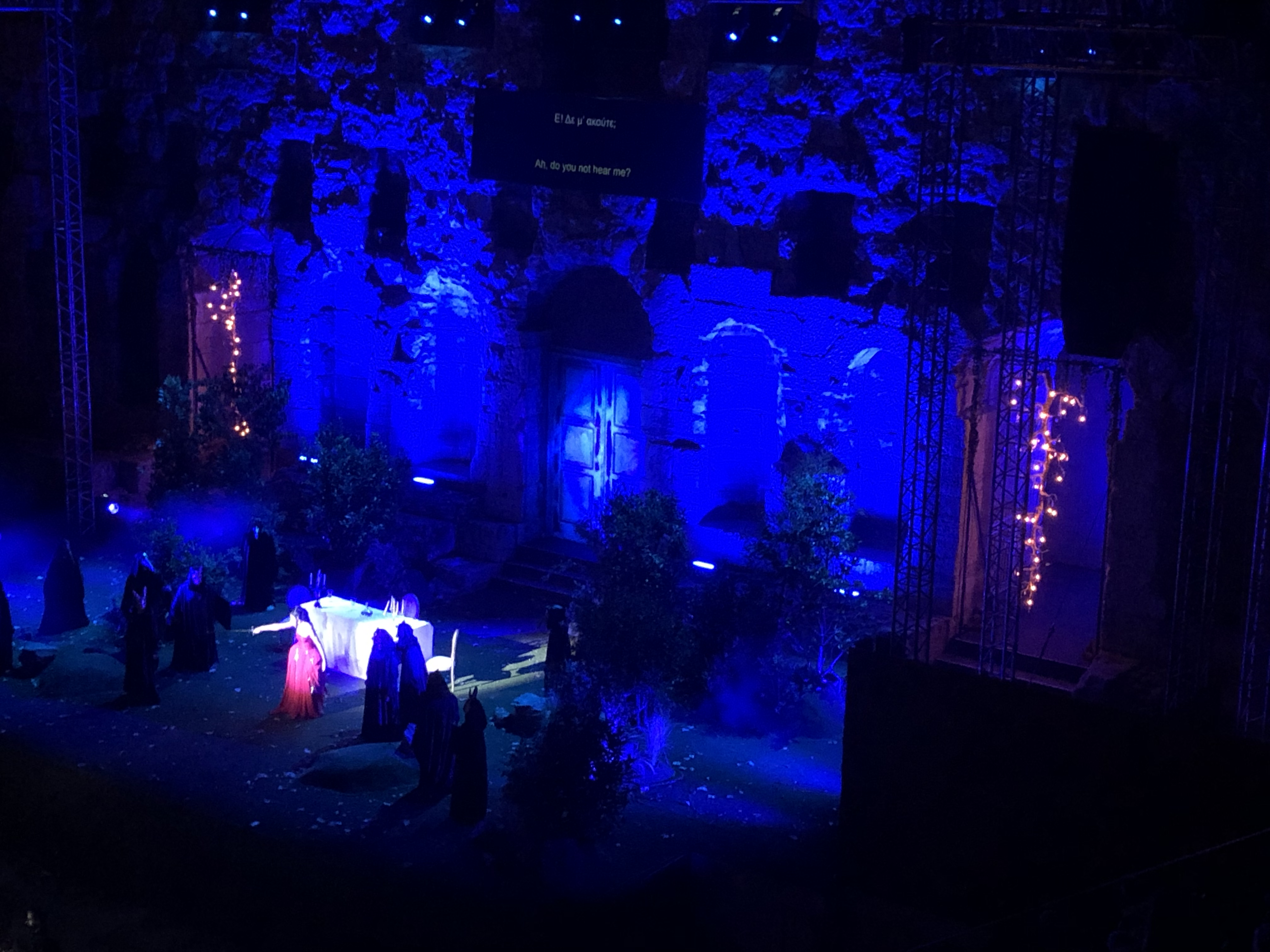 Armonia Atenea-The Friends of Music Orchestra directed by George Petrou, with Myrto Papathanassiou in the role of Alcina. Set and costume by Giorgina Germanou, and stunning effects by Stella Kaltsou.